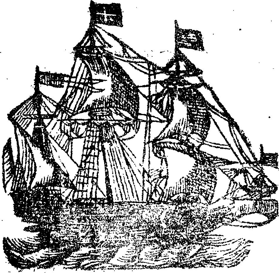 Fleuron from book: A sad and deplorable, but true account of the dreadful hardships, and sufferings of Capt. John Dean, and his company, on board the Nottingham Galley, who were castaway on the rocks call'd Boon Island, near New England: Shewing how they liv'd near a Month upon the Rock, in between Frost and Snow, some losing their Feet, Toes, Nails, with the use of their Limbs, and some their Lives. Also, how having no Food, they were fain to Feed upon the Dead Bodies, which being all Consum'd, they were going to cast Lots which shou'd be next Devour'd: At length how the Remainder of them were Miraculousiy Preserv'd by the Providence of God, and brought to Shore, some of which are now in England. This Account being Attested by the Captain's own Hand, and two others, and very well known by most Merchants upon the Royal Exchange.